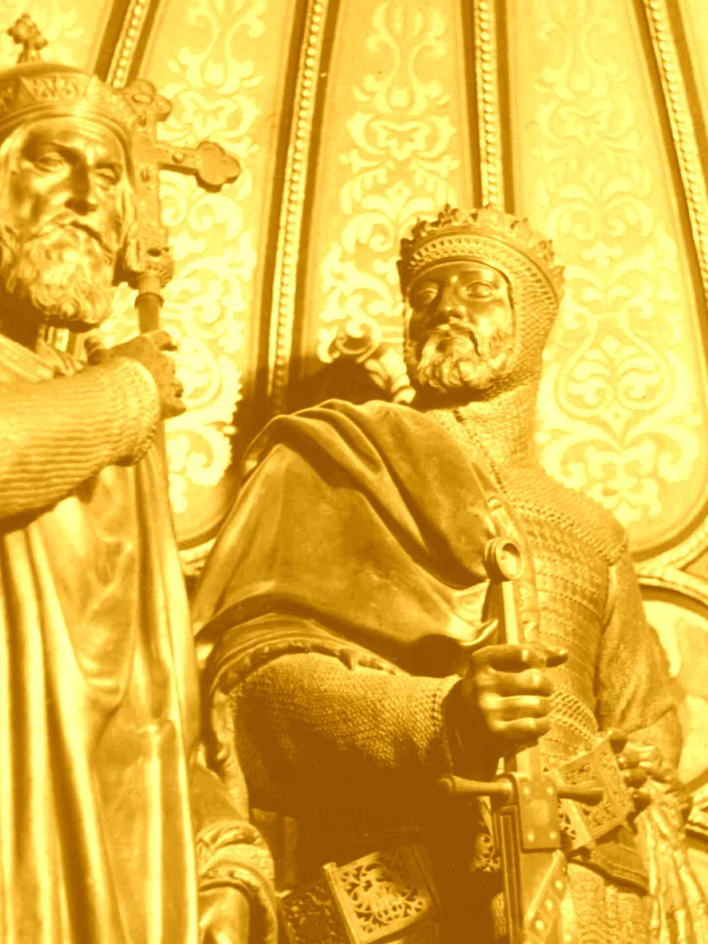 Statue of Mieszko I of Poland in the Poznań Cathedral's Golden Chapel